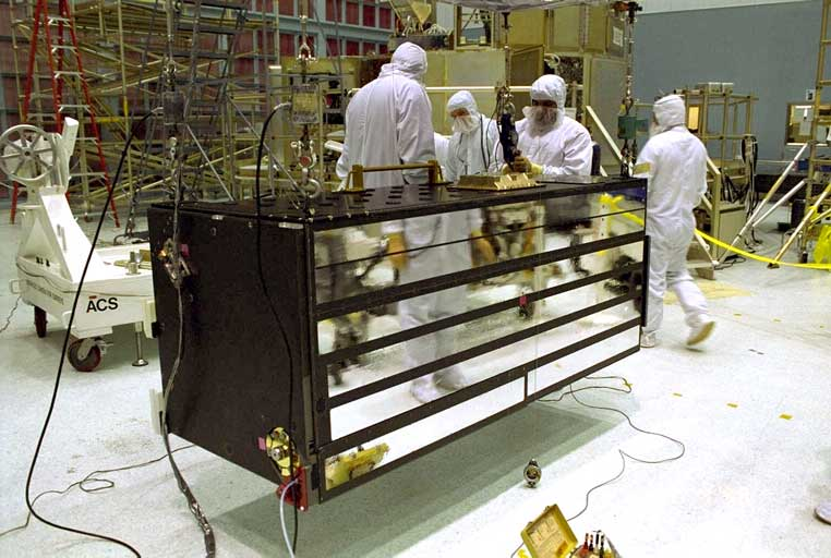 The Advanced Camera for Surveys in the clean room at the Goddard Space Flight Center, prior to its installation on the Hubble Space Telescope. From [1] Modest Genius talk 00:07, 25 April 2007 (UTC)